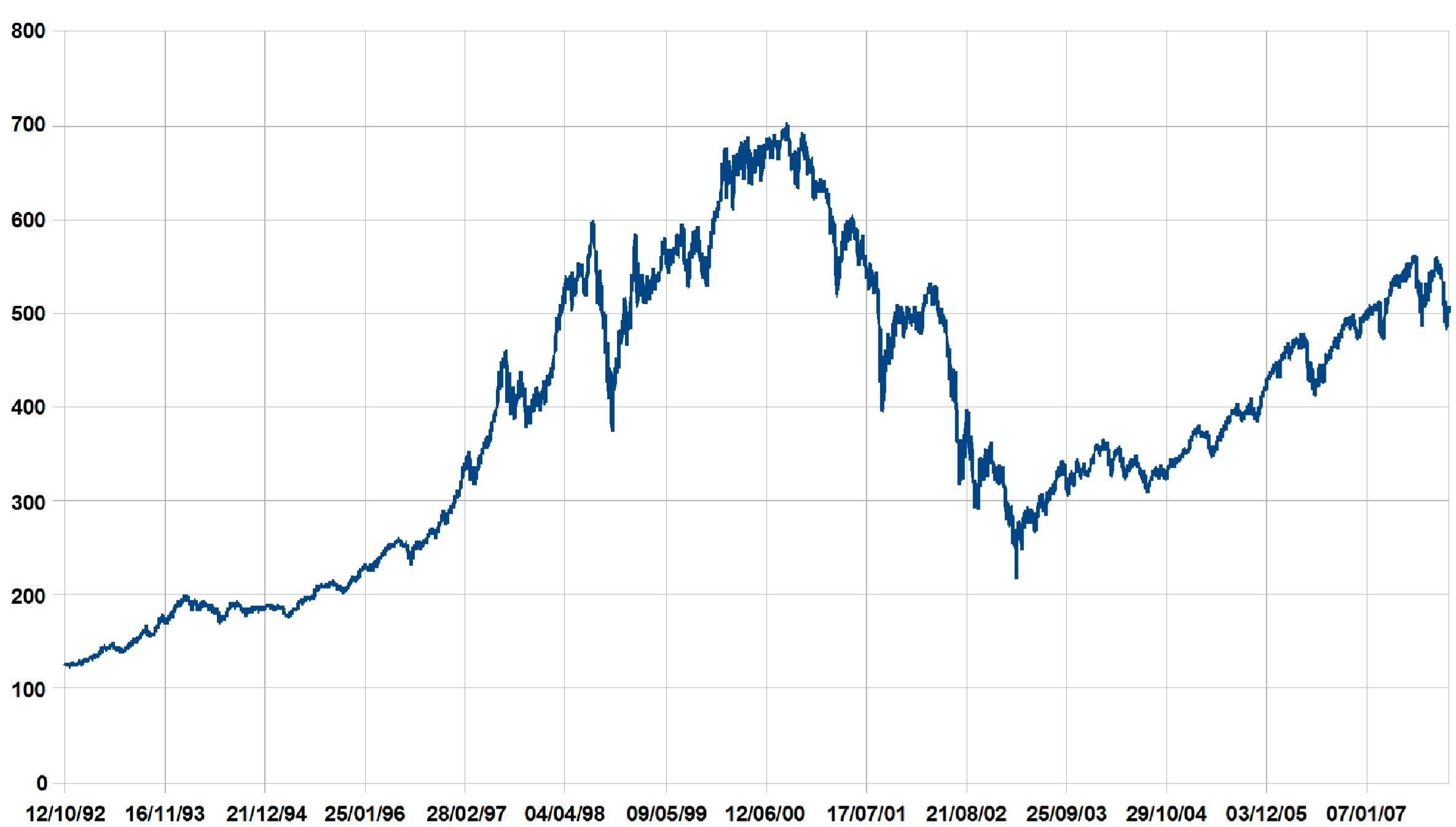 Performance of the AEX index between October 1992 and November 2007